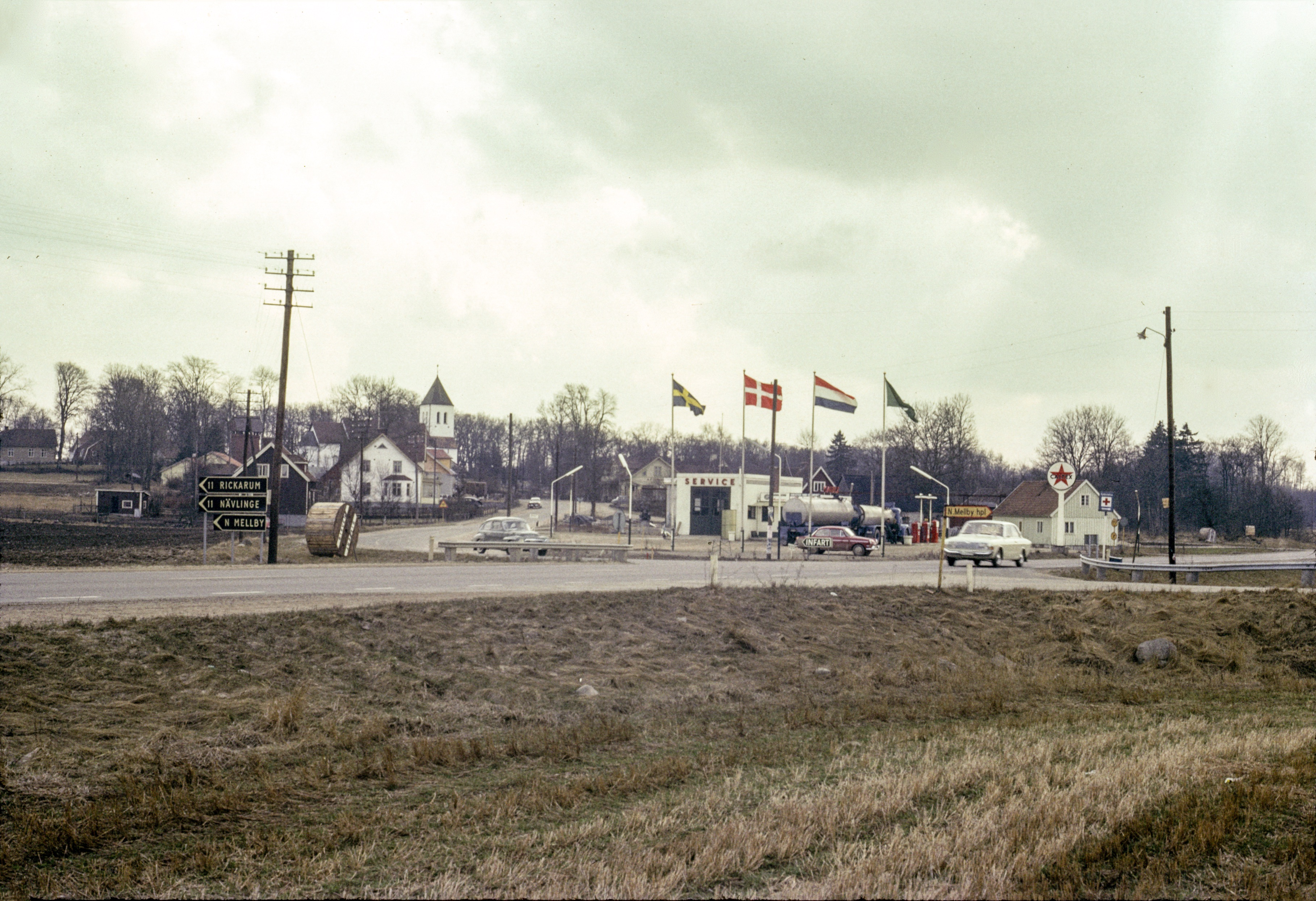 flags everywhere churches always in sight